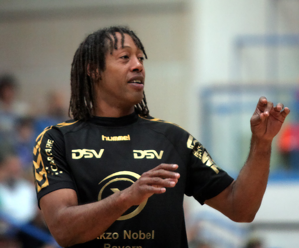 Jackson Richardson, famous French handball player.